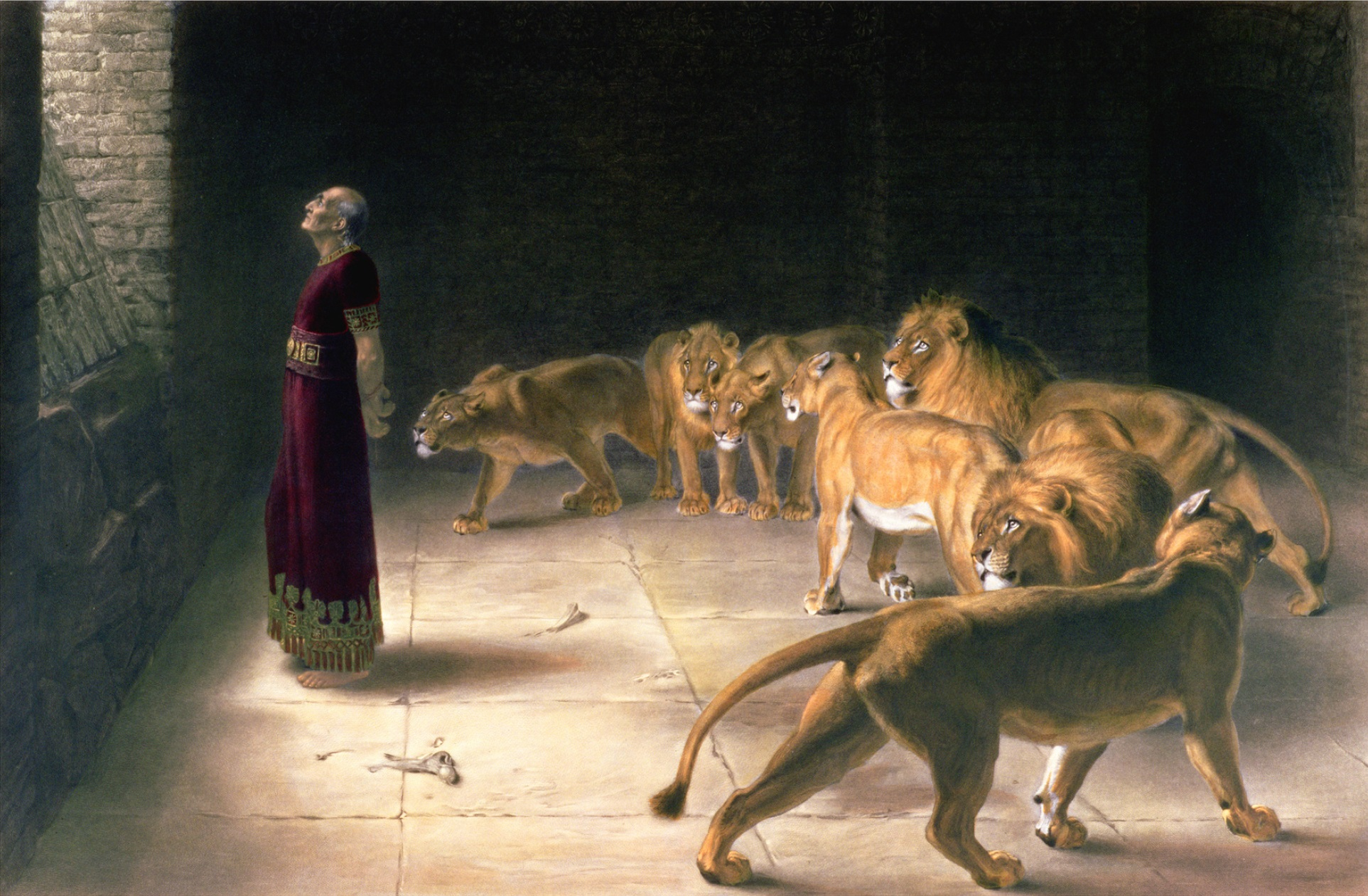 published by Thomas Agnew and Sons, 1892 (Daniel in the Lions Den)